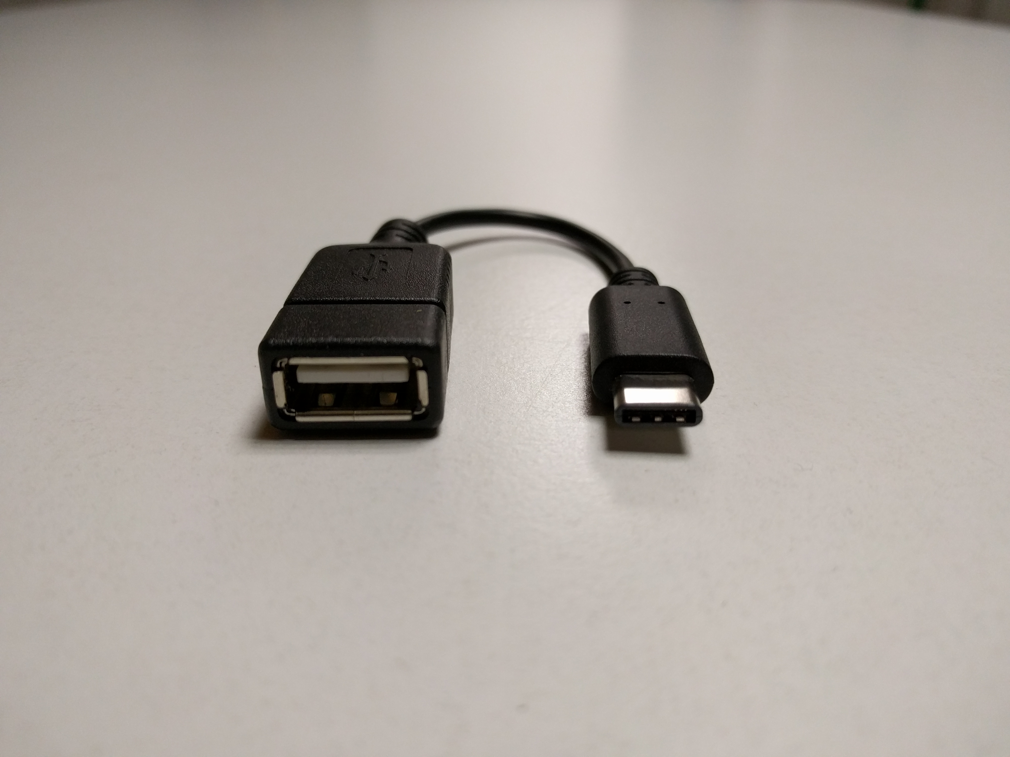 USB OTG cable for USB type C devices